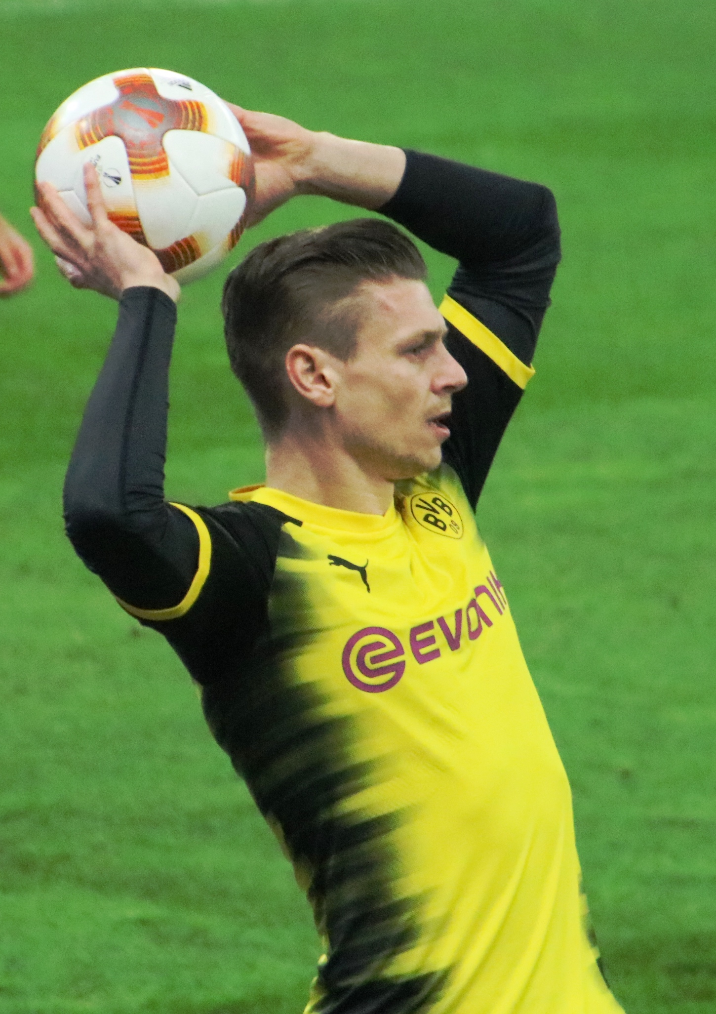 Europa League Achtelfinale Rückspiel 15. März 2018